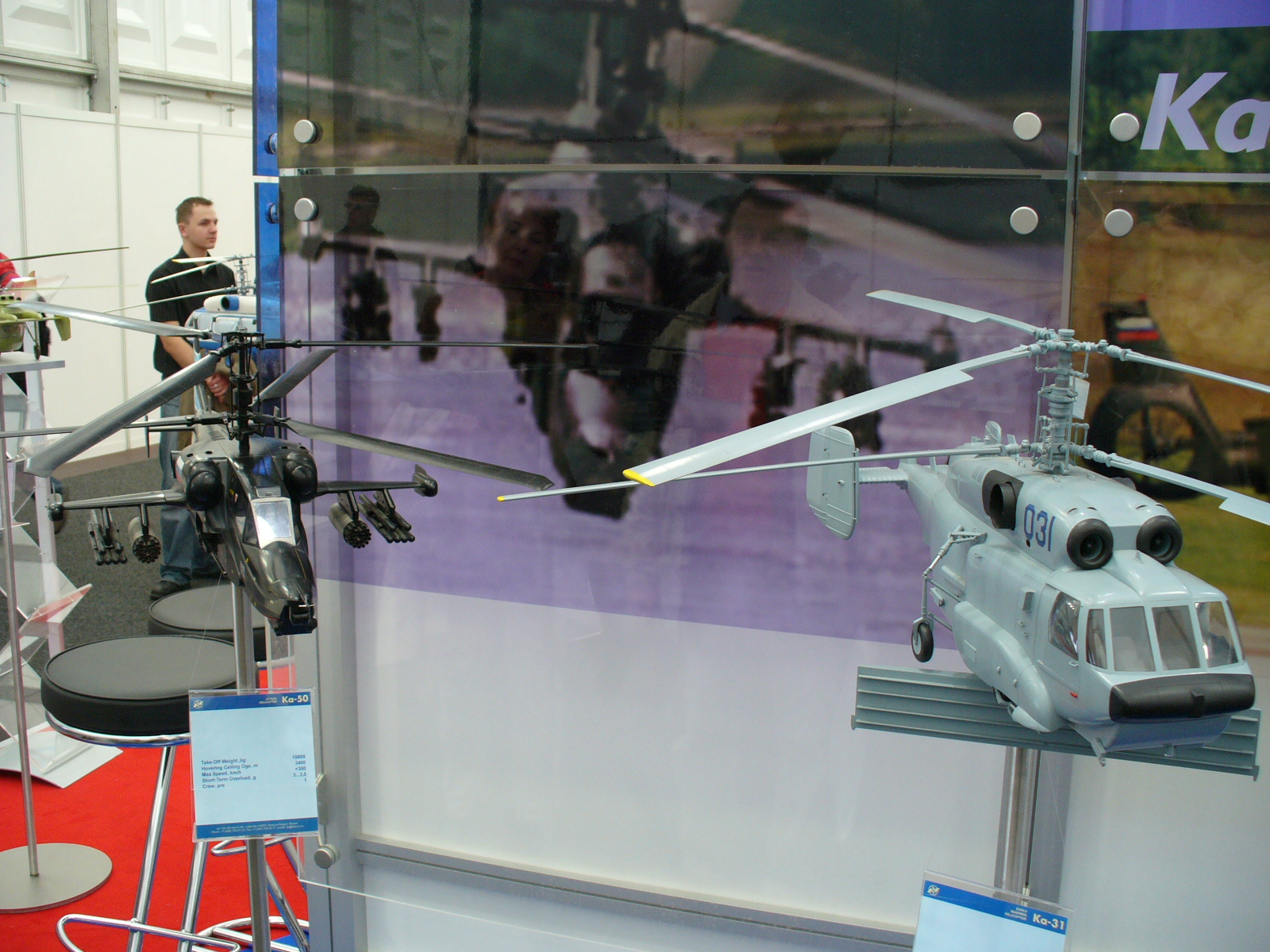 Modele śmigłowców Kamowa: Ka-50 i Ka-31 na ILA2006 Models of two Kamov helicopters: Ka-50 and Ka-31 at the ILA2006